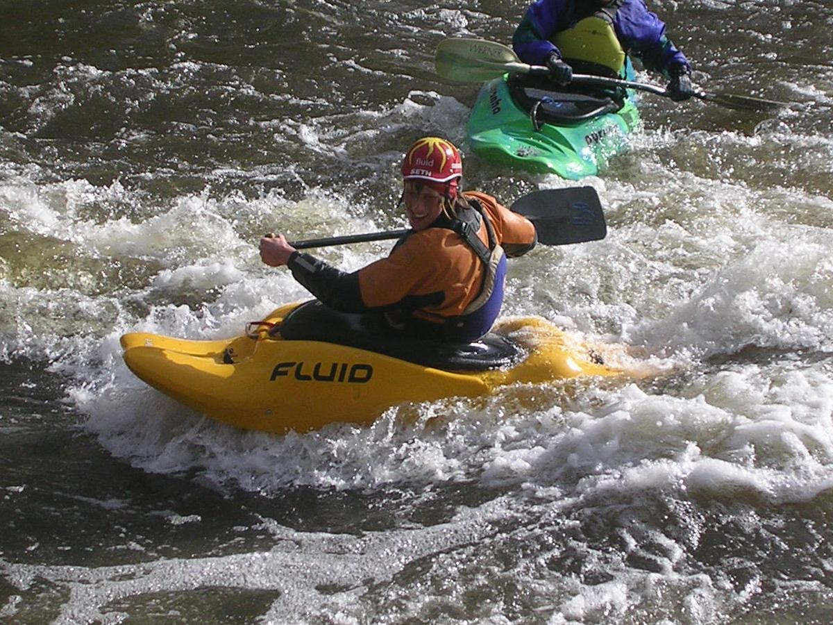 C1 playboat, a decked canoe designed for performing acrobatic tricks while riding river waves